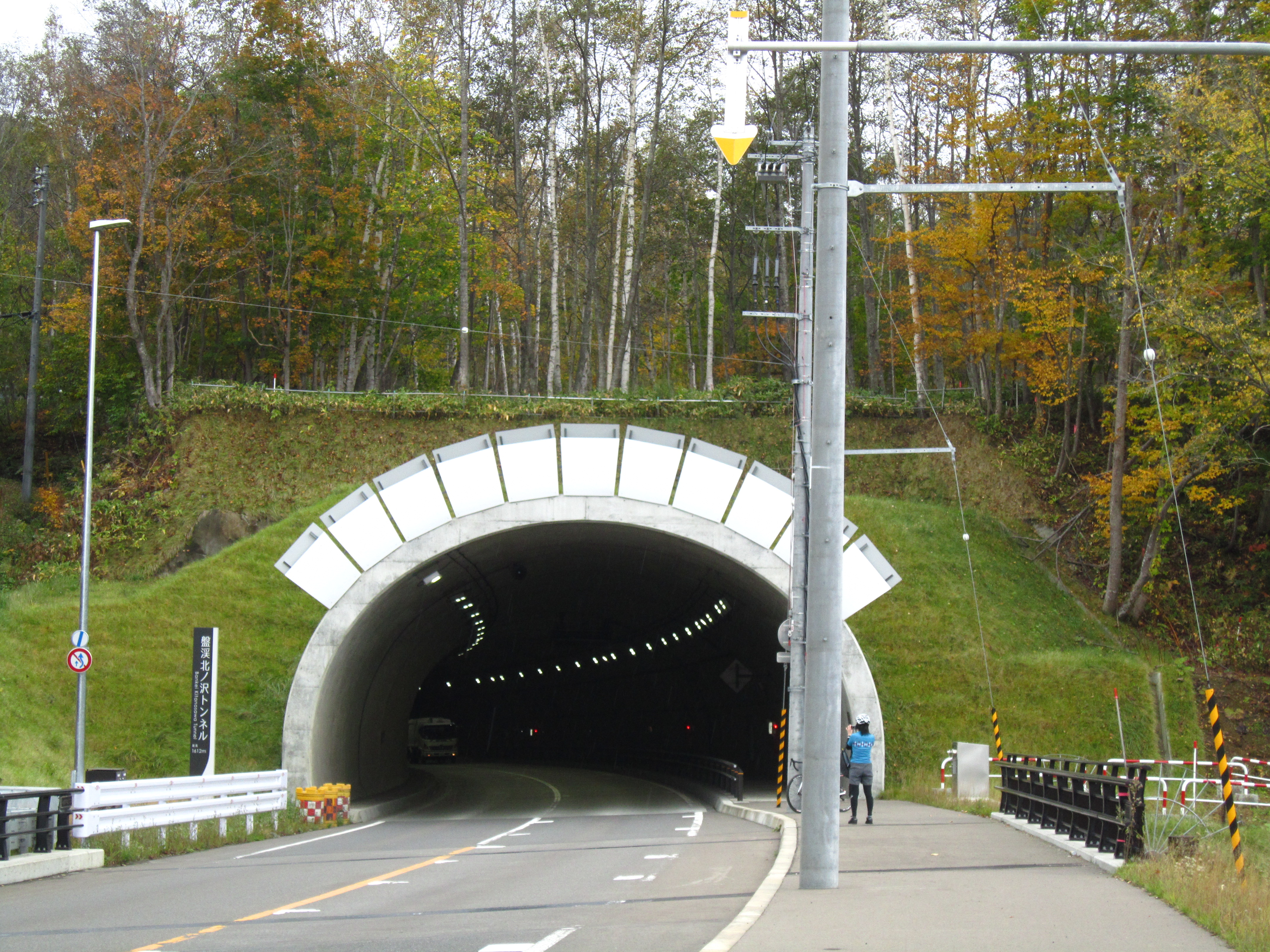 Bankei Kitanosawa Tunnel; Bankei Entrance